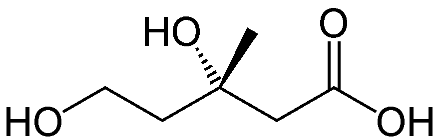 S-Mevalonic-acid